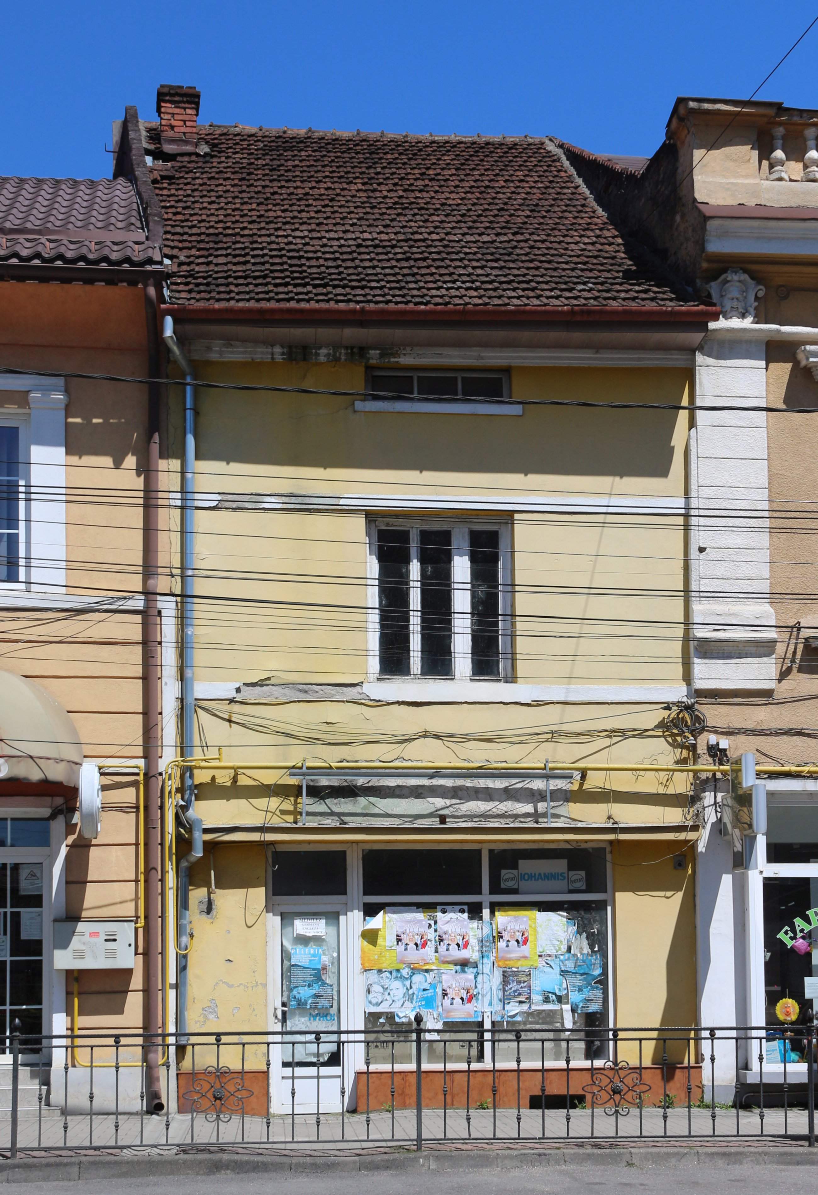 Vasilevici House, Caransebeș, Mihai Viteazul St., no. 29, built 18th century.